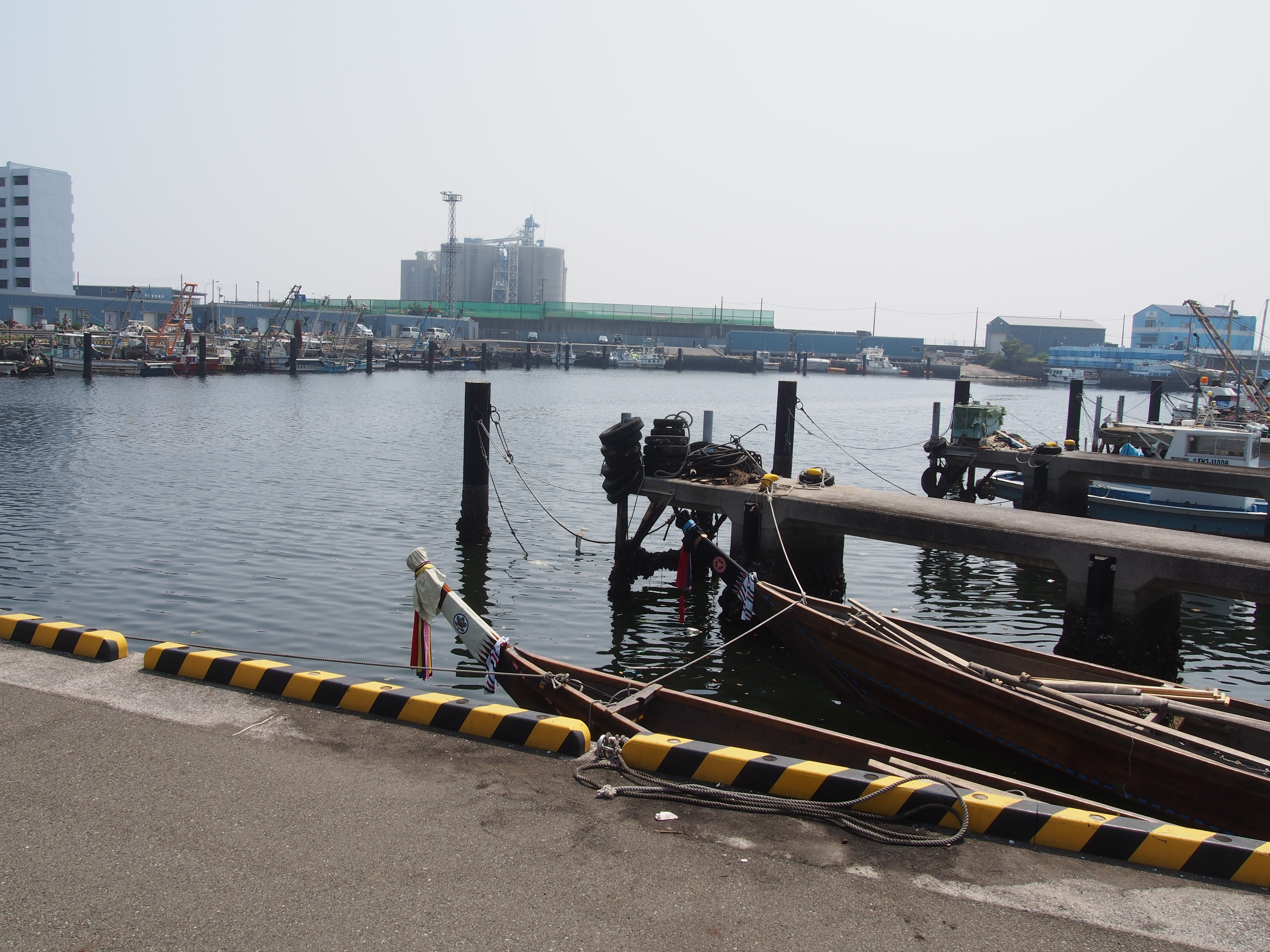 Hommoku Fishing Port, at Yokohama city.